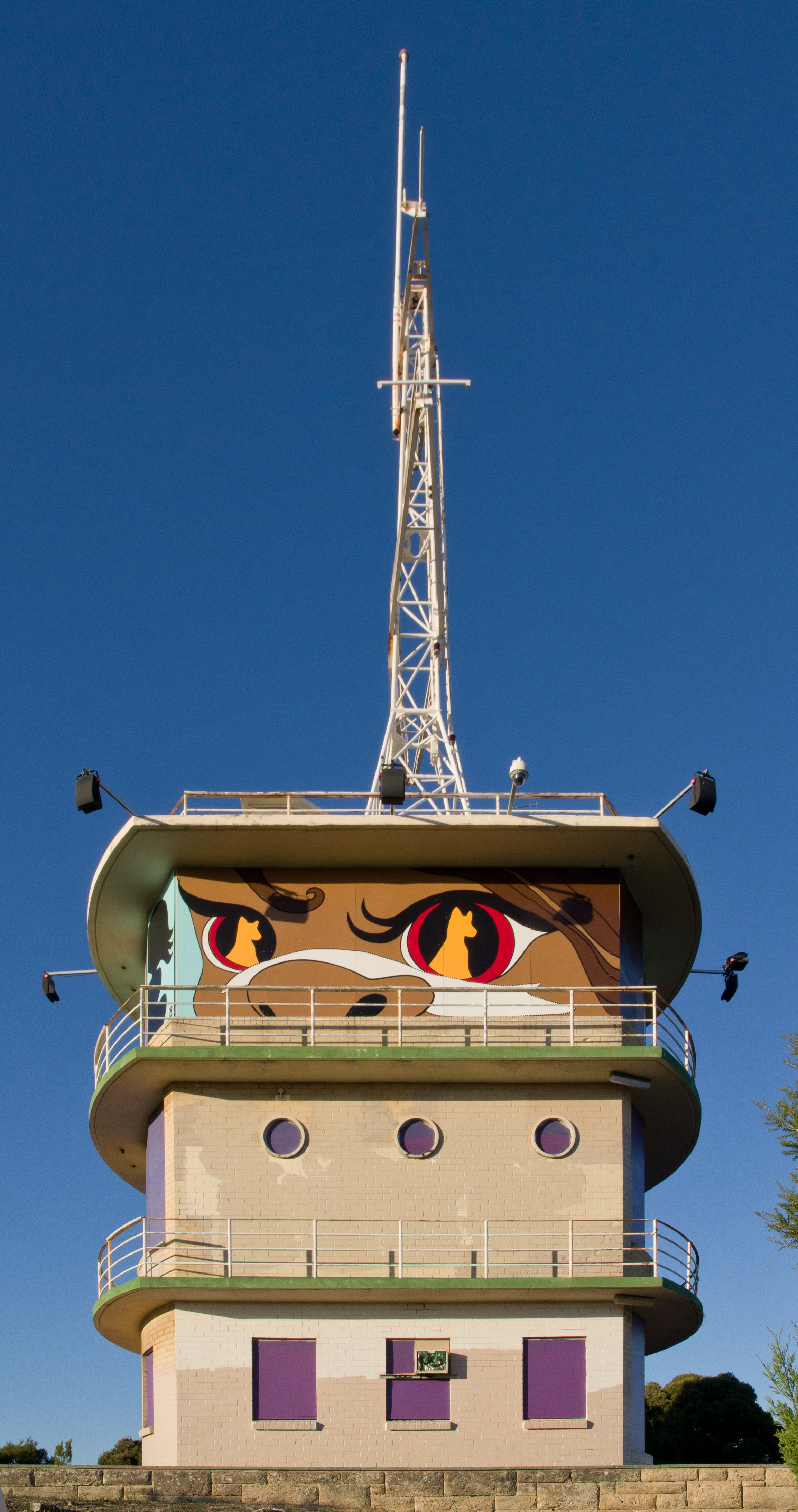 Cantonment Hill signal station, opened in 1956 closed in 1964 unoccupied since, mural by Nami Osaki in march 2015